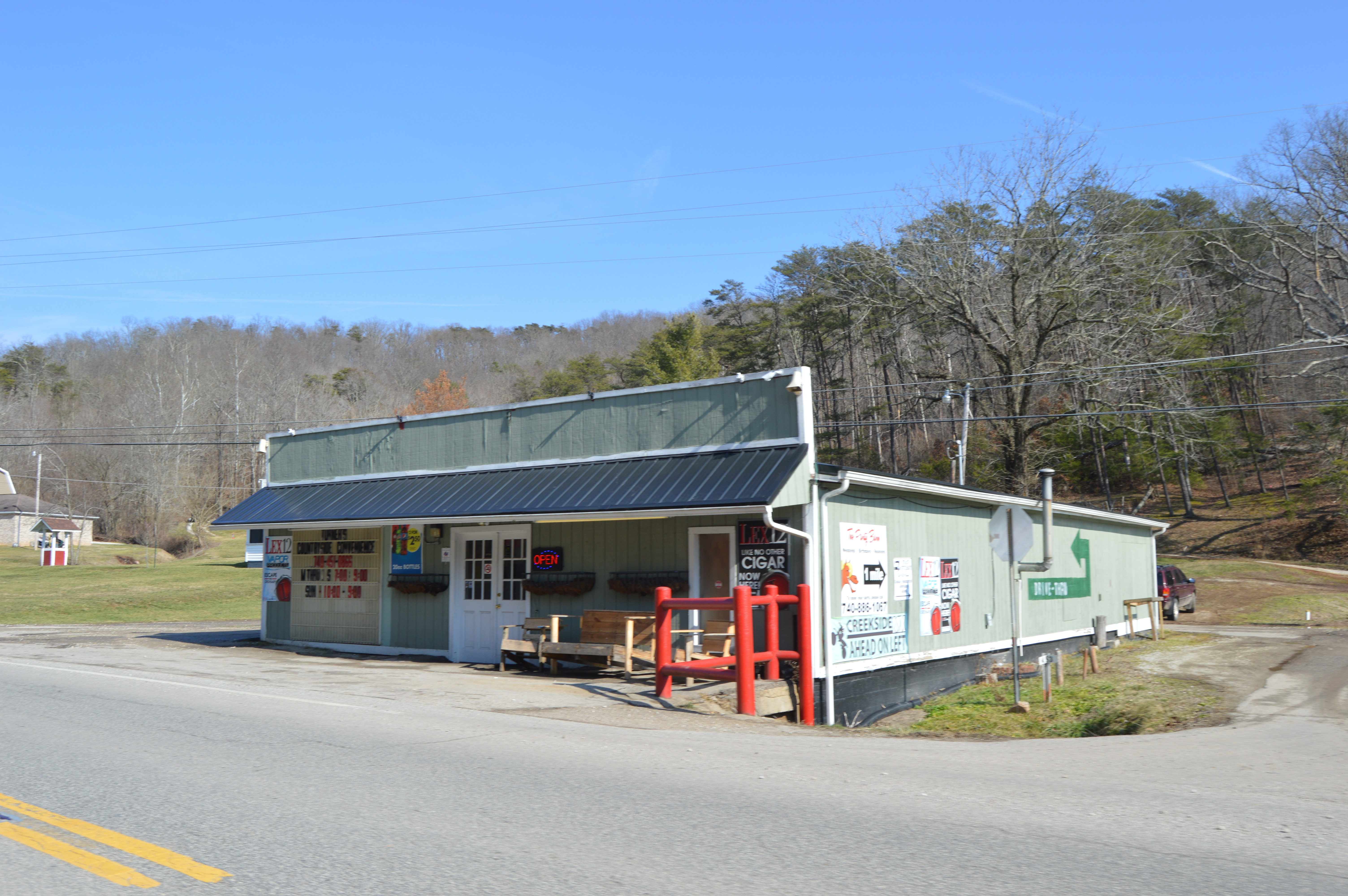 Front and southern side of a country store on the northeastern corner of the intersection of State Route 775 and Five Mile Creek Road north of Proctorville in northeastern Union Township, Lawrence County, Ohio, United States.